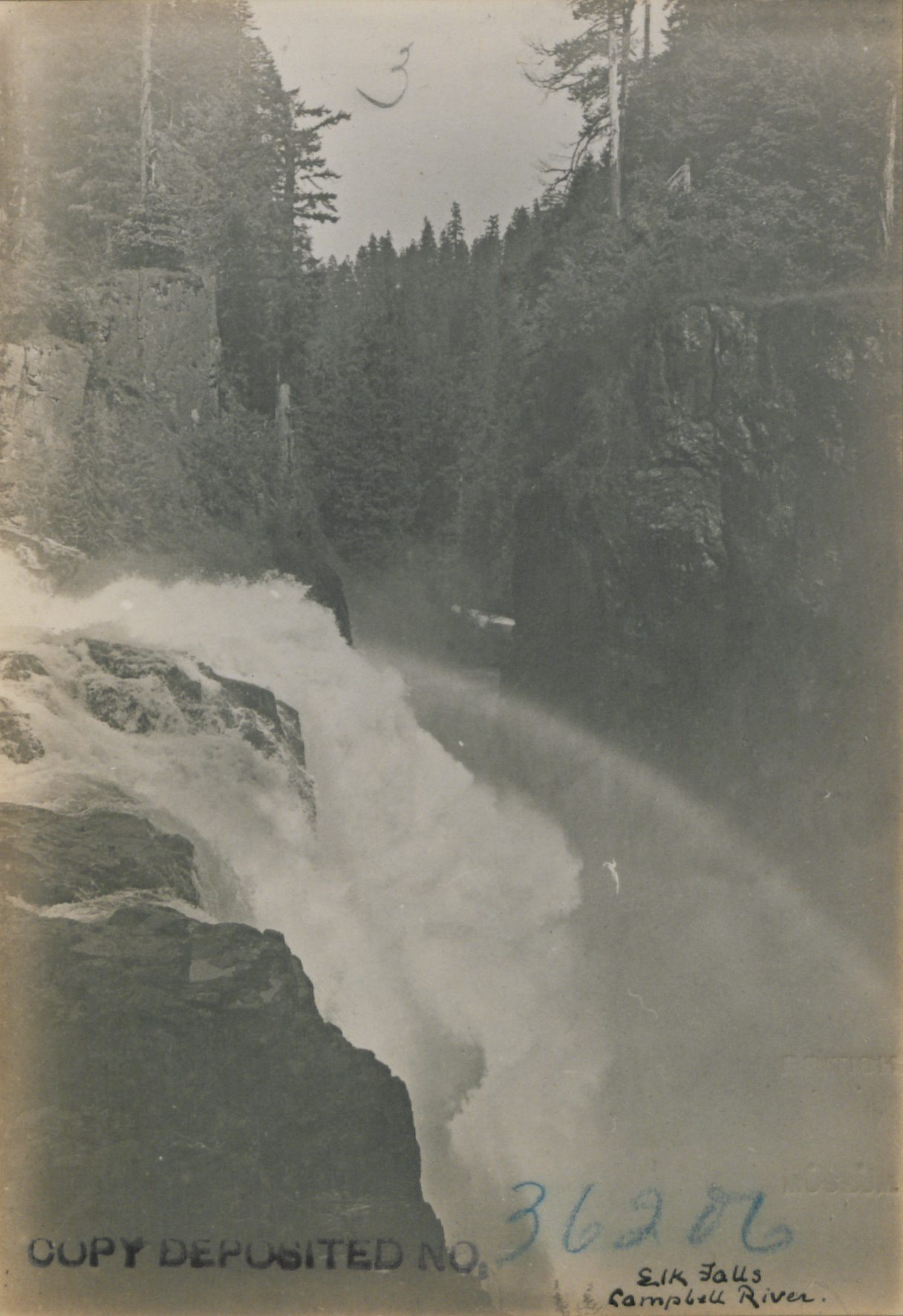 Original caption: “Elk Falls, Campbell River.”